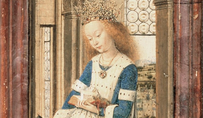 crop of Jan van Eyck's 1437 Dresden Triptych showing St. Catherine; frames are included under a claim of de minimis